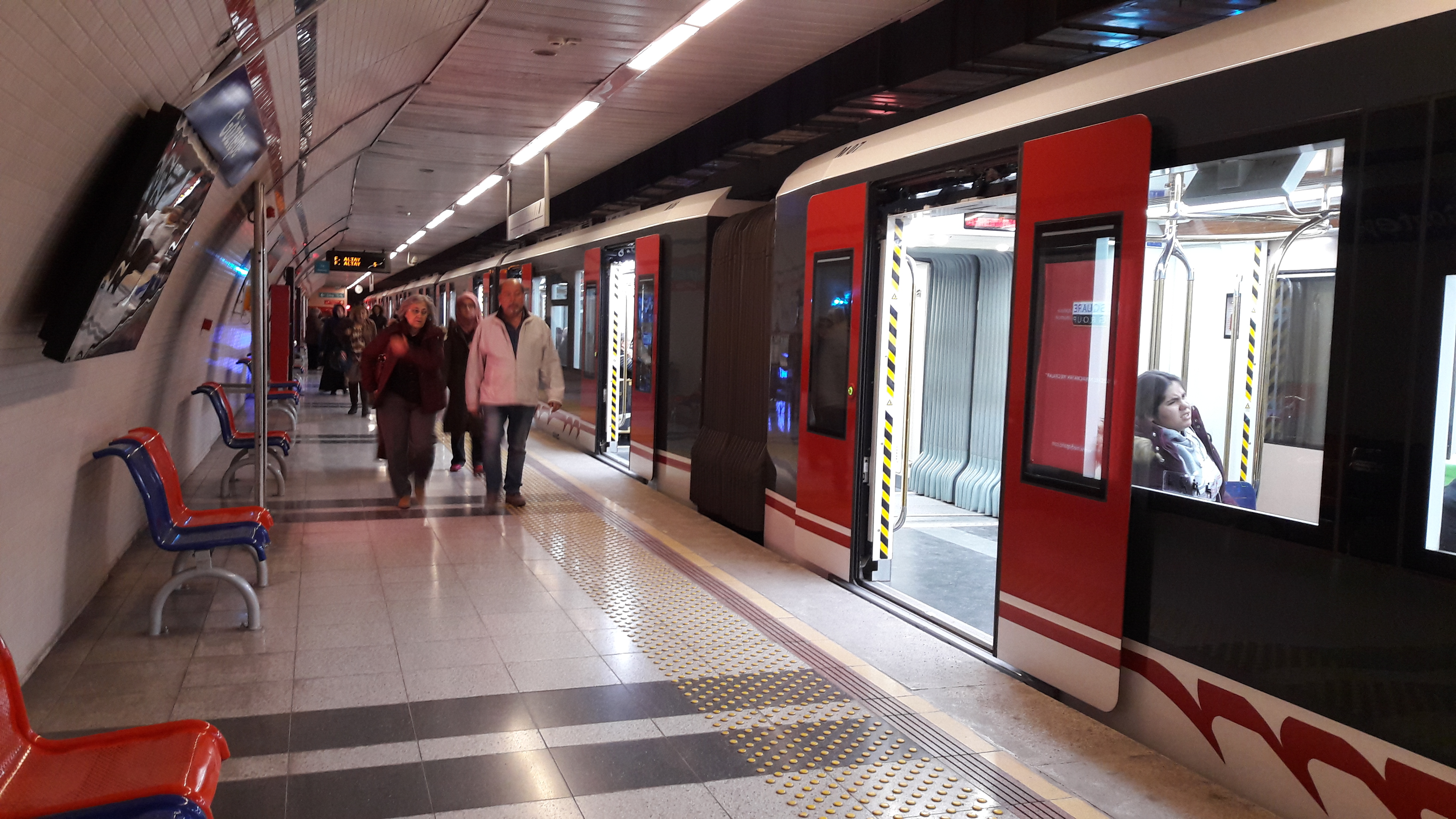 A Fahrettin Altay-bound train at Göztepe station.